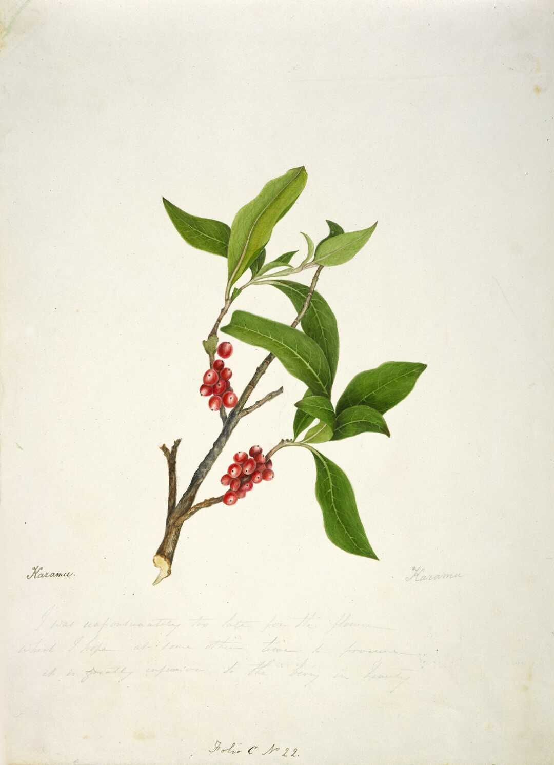 A branch of karamu in leaf and berry by Martha King. Prepared for the New Zealand Company in 1842. Folio C No. 22